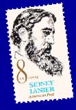 Picture of a U.S. postage stamp bearing a picture of Sidney Lanier. This stamp was issued in 1972. The postage on this stamp is 8 cents. U.S. first-class postage was 8 cents between 1971–74.